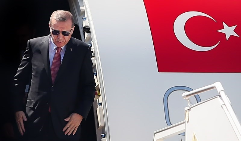 Turkish President Recep Tayyip Erdoğan arriving in Tehran's Mehrabad International Airport